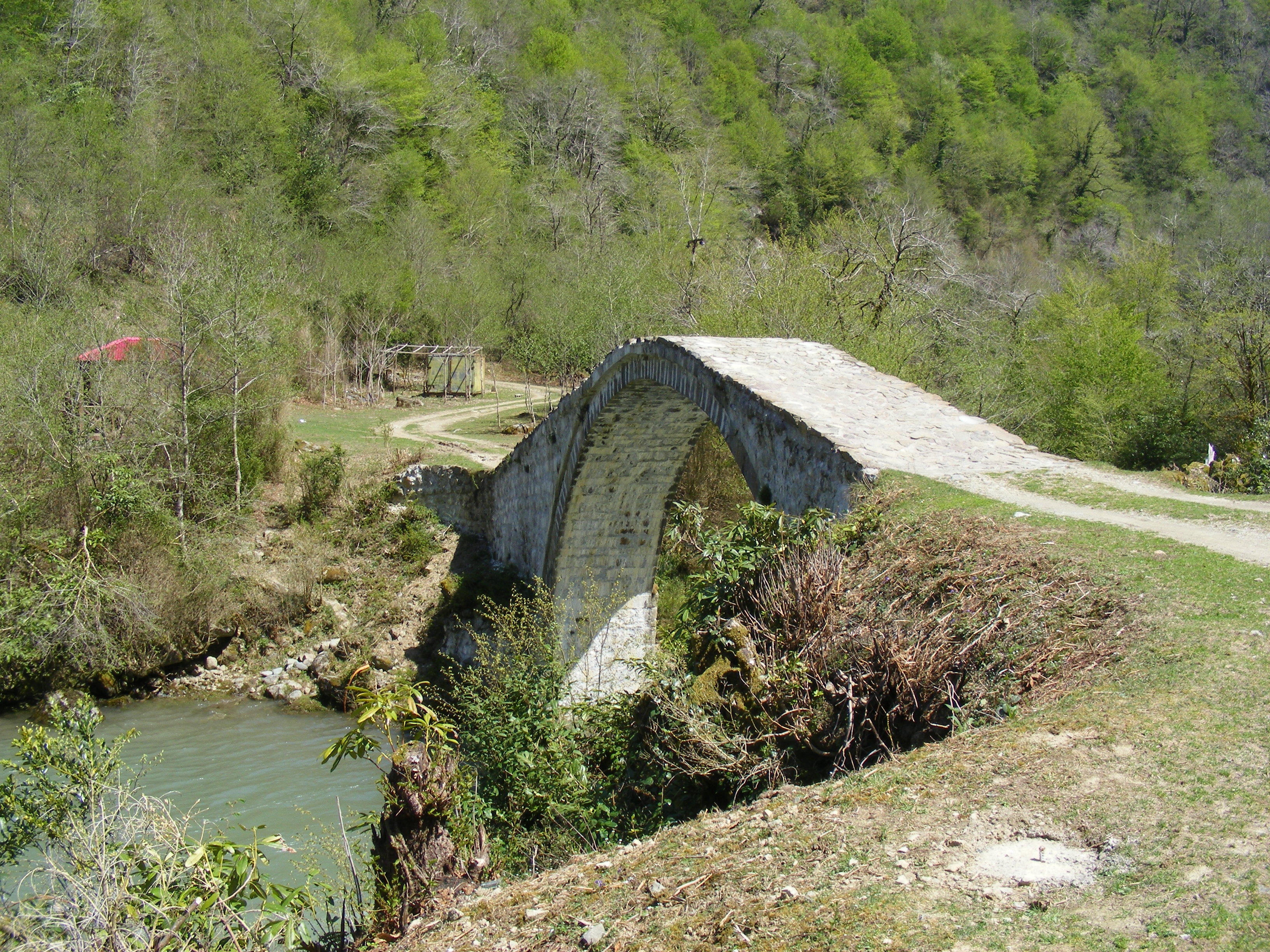 Arced Bridge (Tamari Bridge, Kobalauri Bridge) in Village Varjanauli